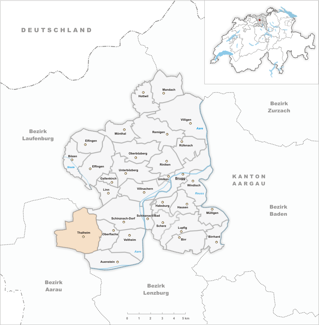 Municipality Thalheim